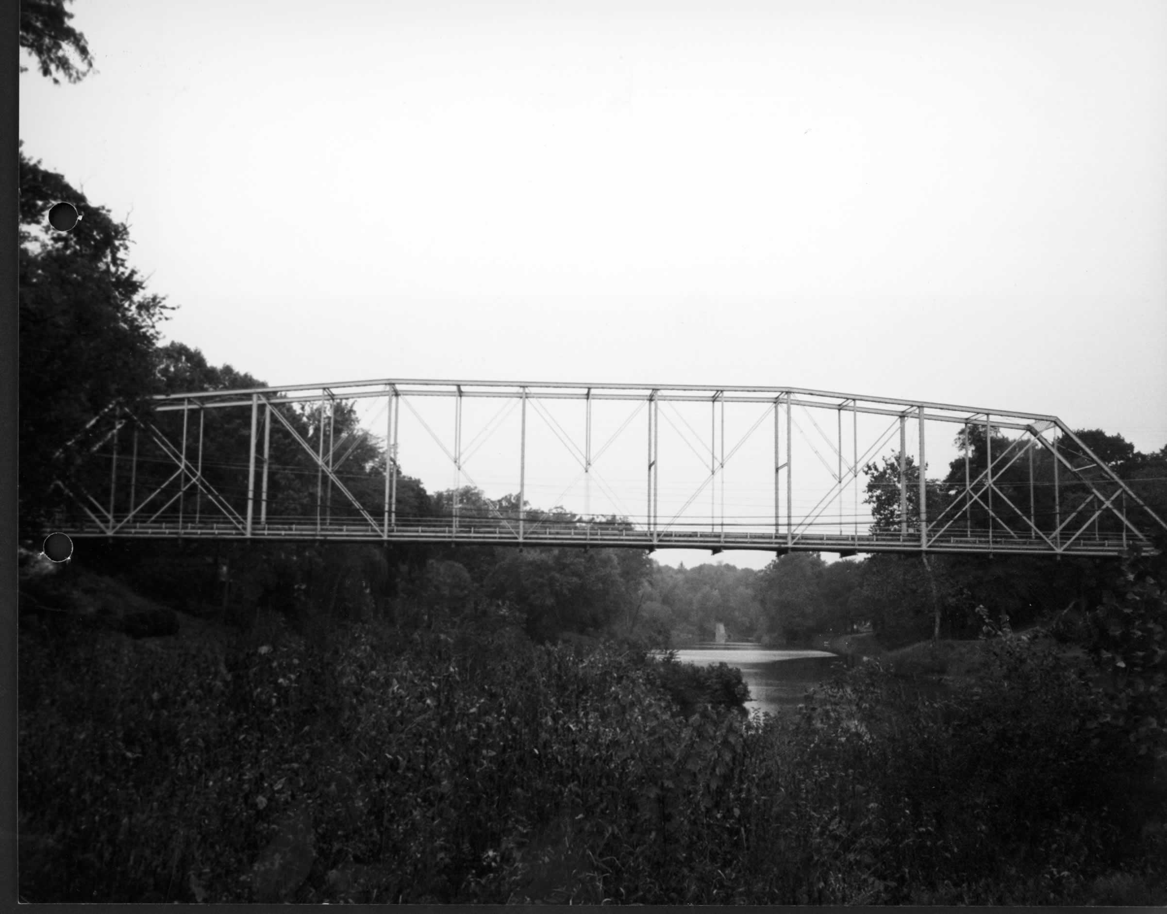 Bridge between East Manchester and Newberry Townships, which carries Legislative Route 250 over the Conewago Creek in East Manchester Township and Newberry Township, York County, Pennsylvania, United States. Built in 1889, the bridge is listed on the National Register of Historic Places.